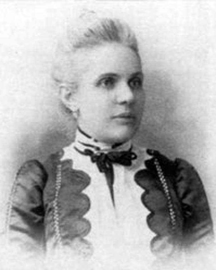 Portrait of Anna Kaptsova (1880-1927), a Russian merchant